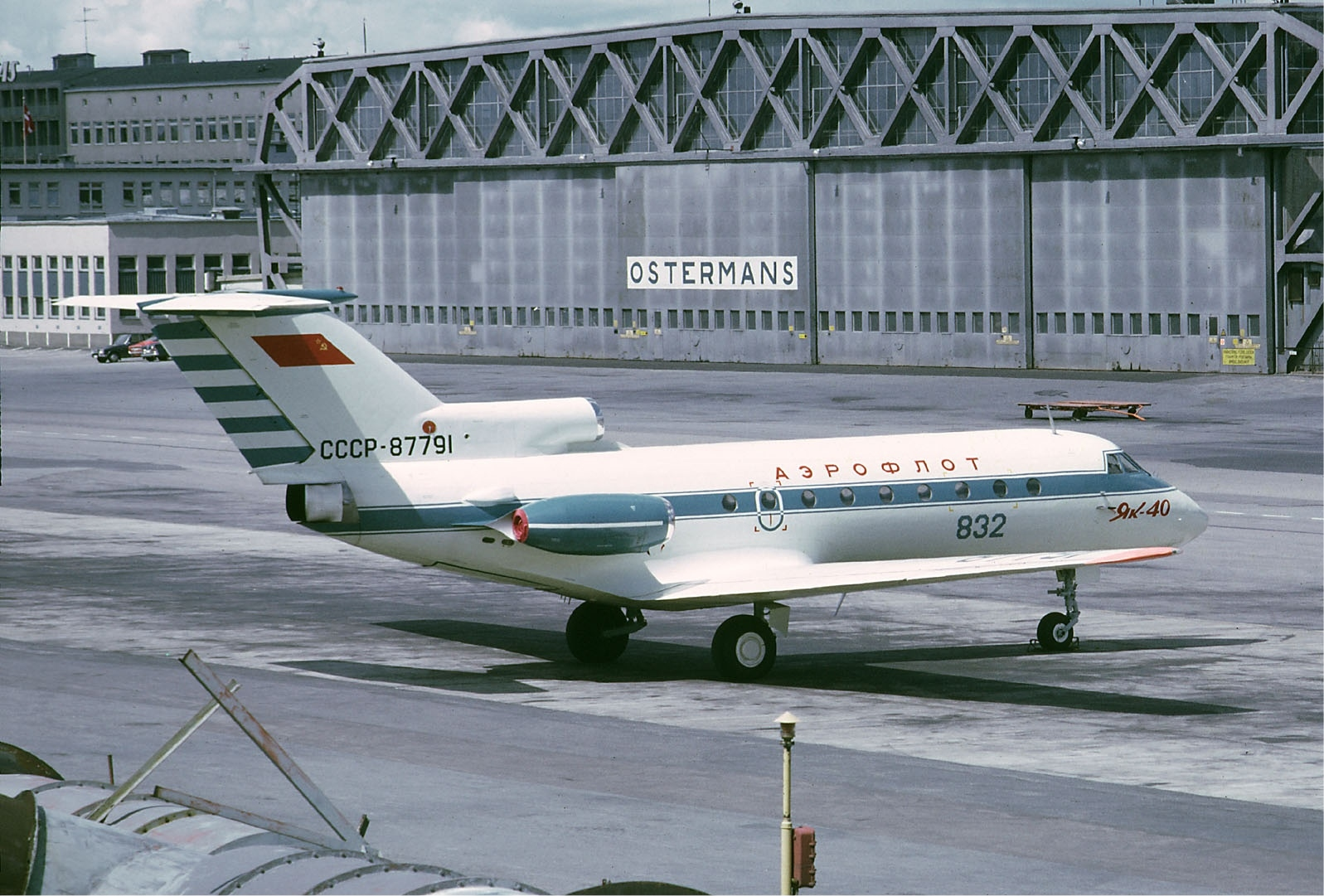 Yakovlev Yak-40 of Aeroflot at Bromma Airport